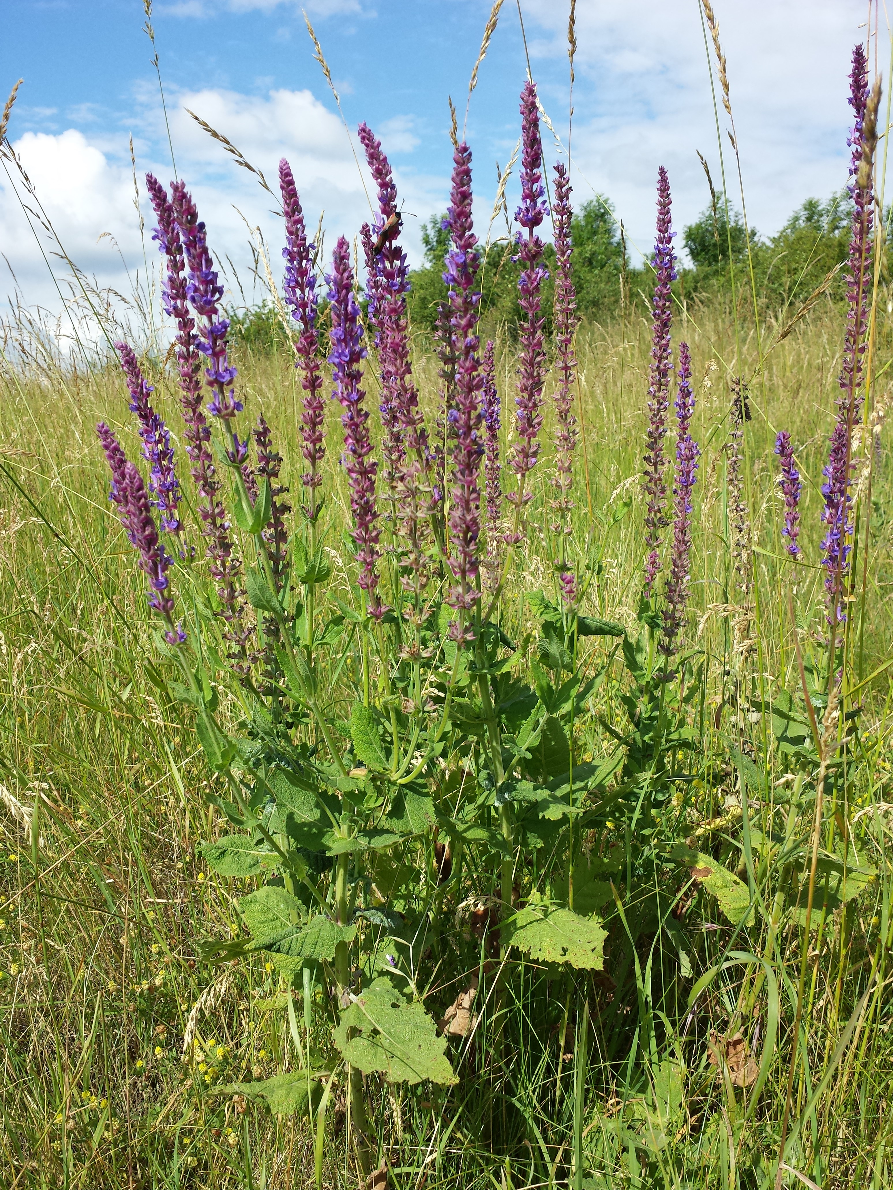 Habitus Taxon: Salvia nemorosa (sensu Fischer et al. EfÖLS 2008 ISBN 978-3-85474-187-9) Location: Gebmannsberg, district Korneuburg, Lower Austria - ca. 340 m a.s.l. Habitat: semi dry grassland over Loess